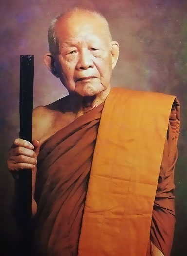 Thai monk